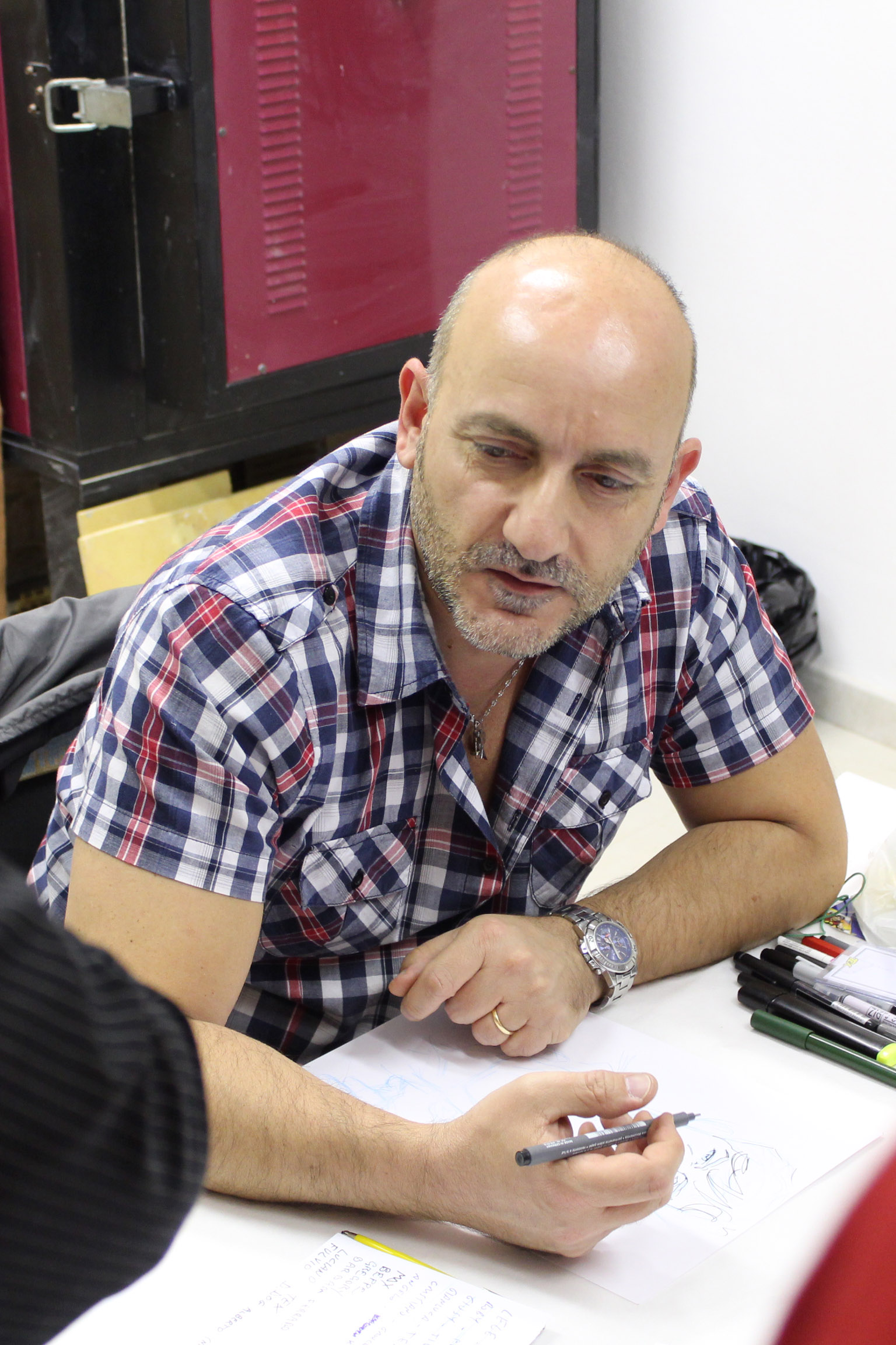 Albissola Comics 2013, May 4th-5th 2013, Albissola Marina, Savona, Italy